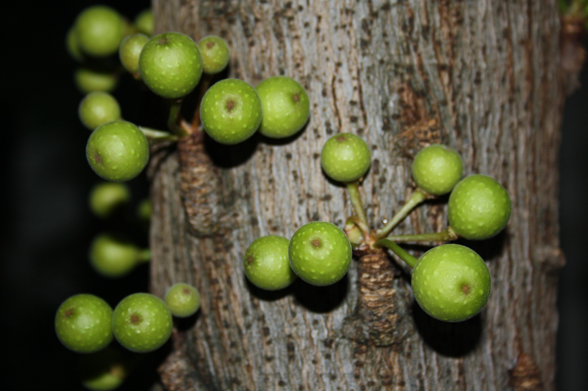 Ficus gilletii